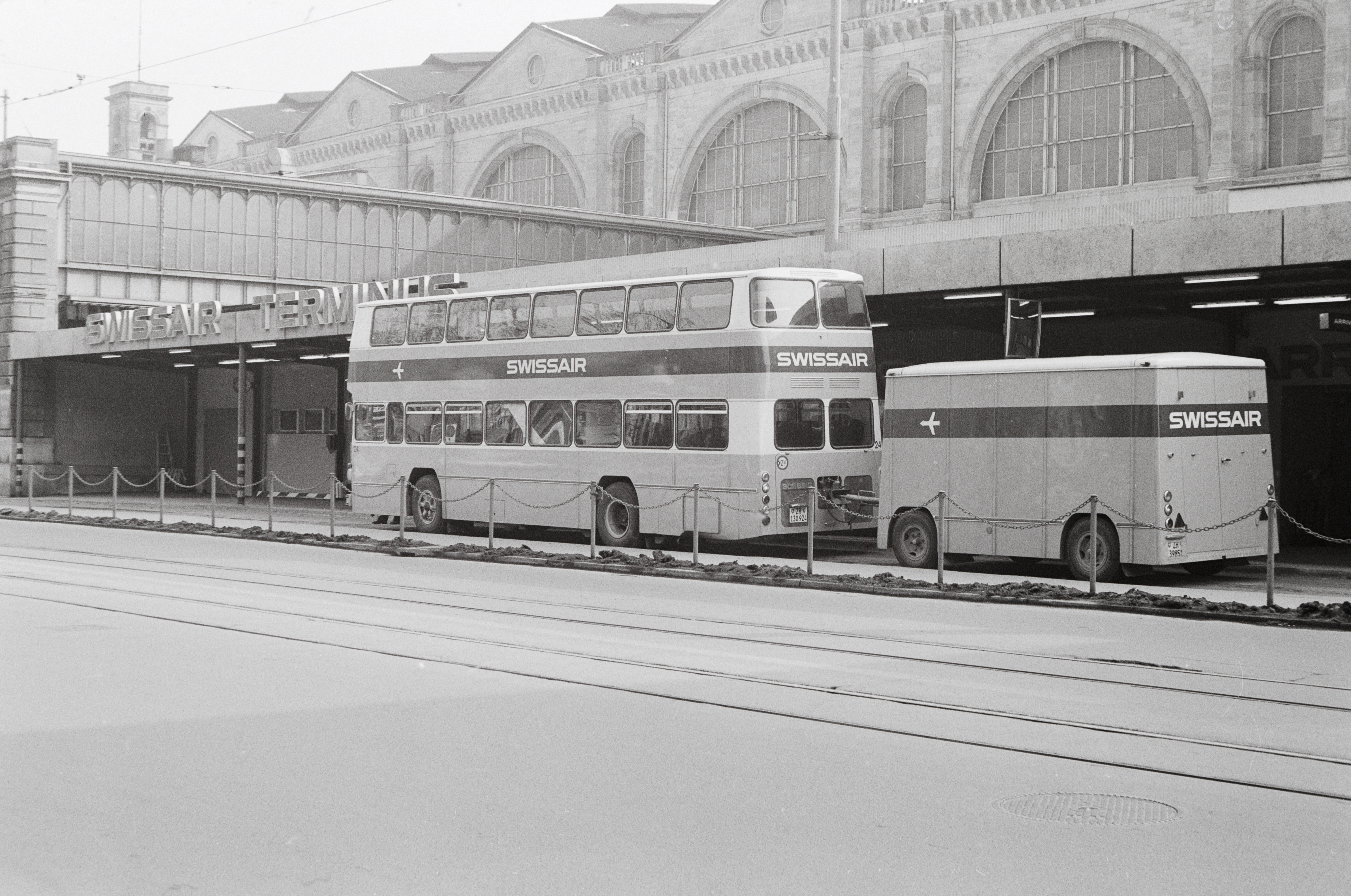 Double-decker Swissair bus at Zürich main station.